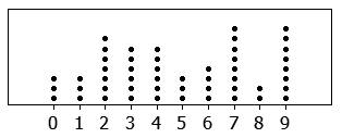 Dotplot example.